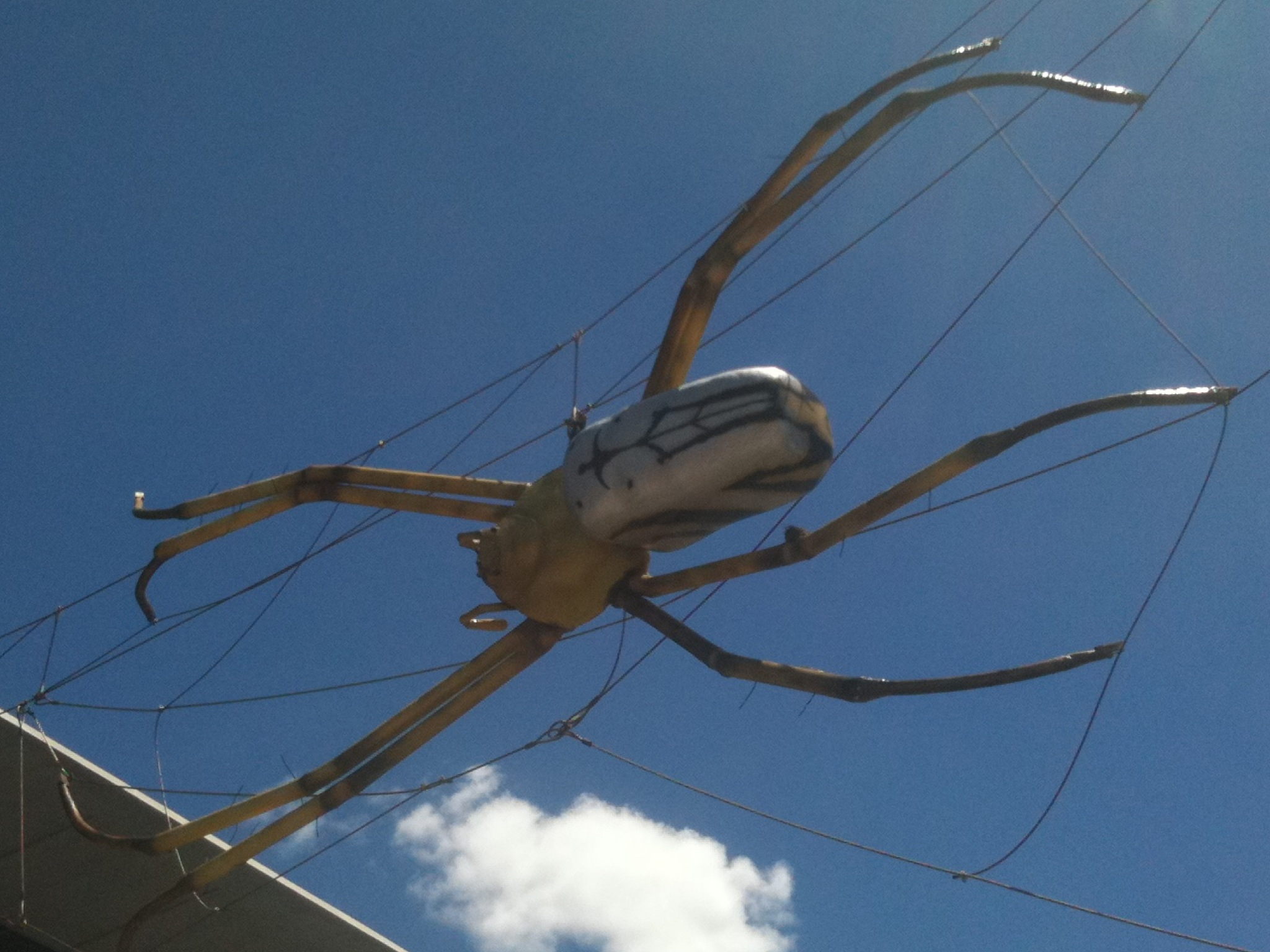 this giant spider sits across the road in front of museum of tropical Queensland, which is pretty cool, but the bit that made me stop and take a pic was the little nest some birds have made on it's back leg